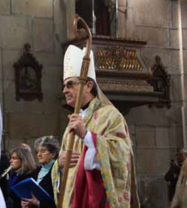 Eucaristia do 500º aniversário da Santa Casa da Misericórdia de Castelo Branco